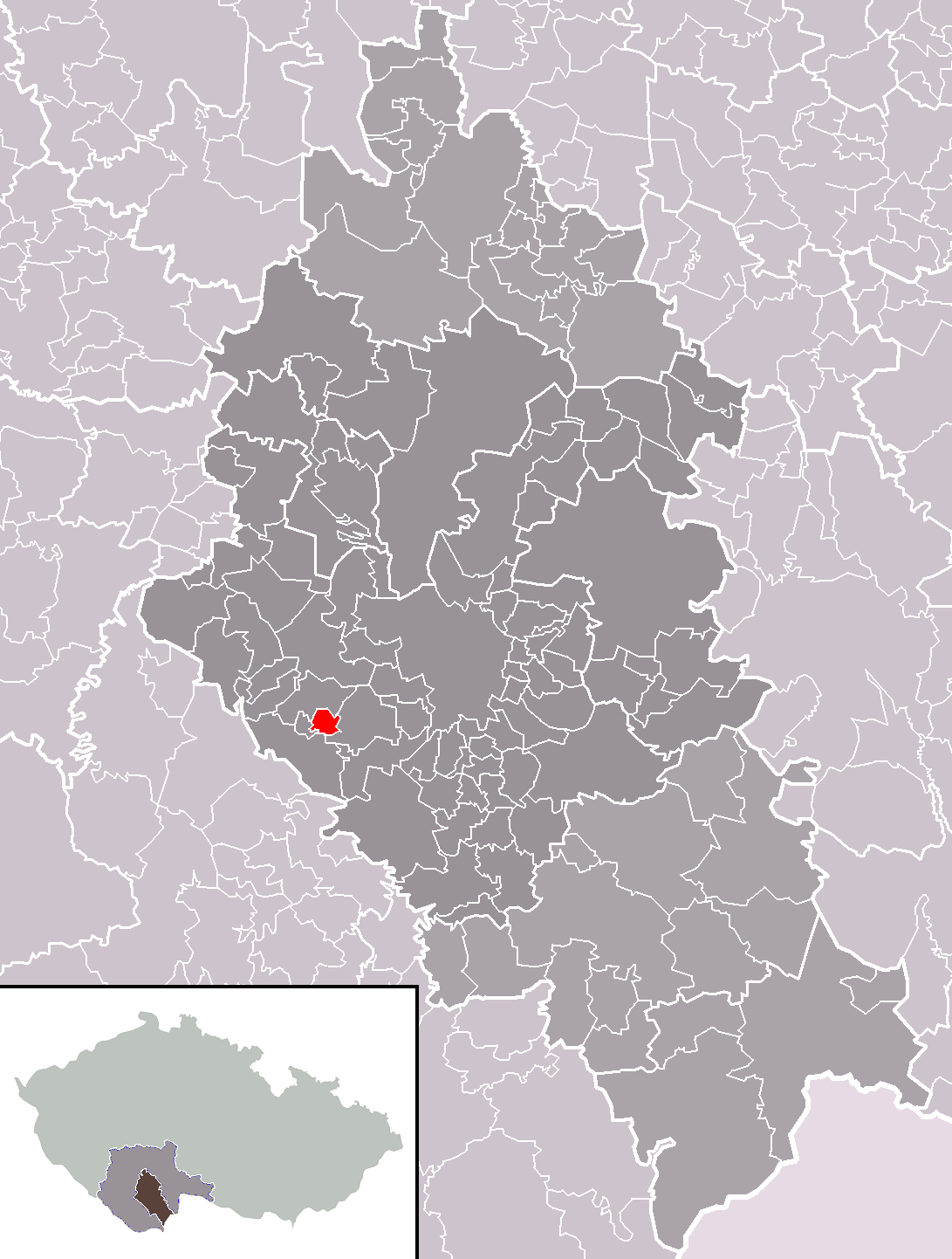 Location of Závraty municipality within České Budějovice District and administrative area of České Budějovice as a Municipality with Extended Competence.